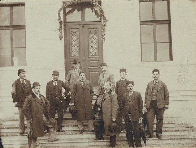 Aleko Konstantinov, Mihail Takev, Vasil Rashkov in Peshtera, Bulgaria. 11(23).05.1897.